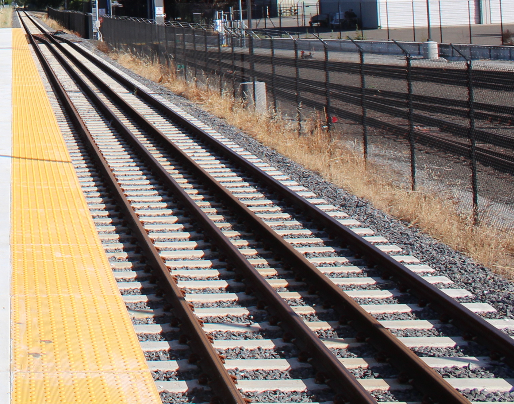 gauntlet track cropped from SMART-Station-Sonoma-County-Airport-2016-06-07-173221.jpg